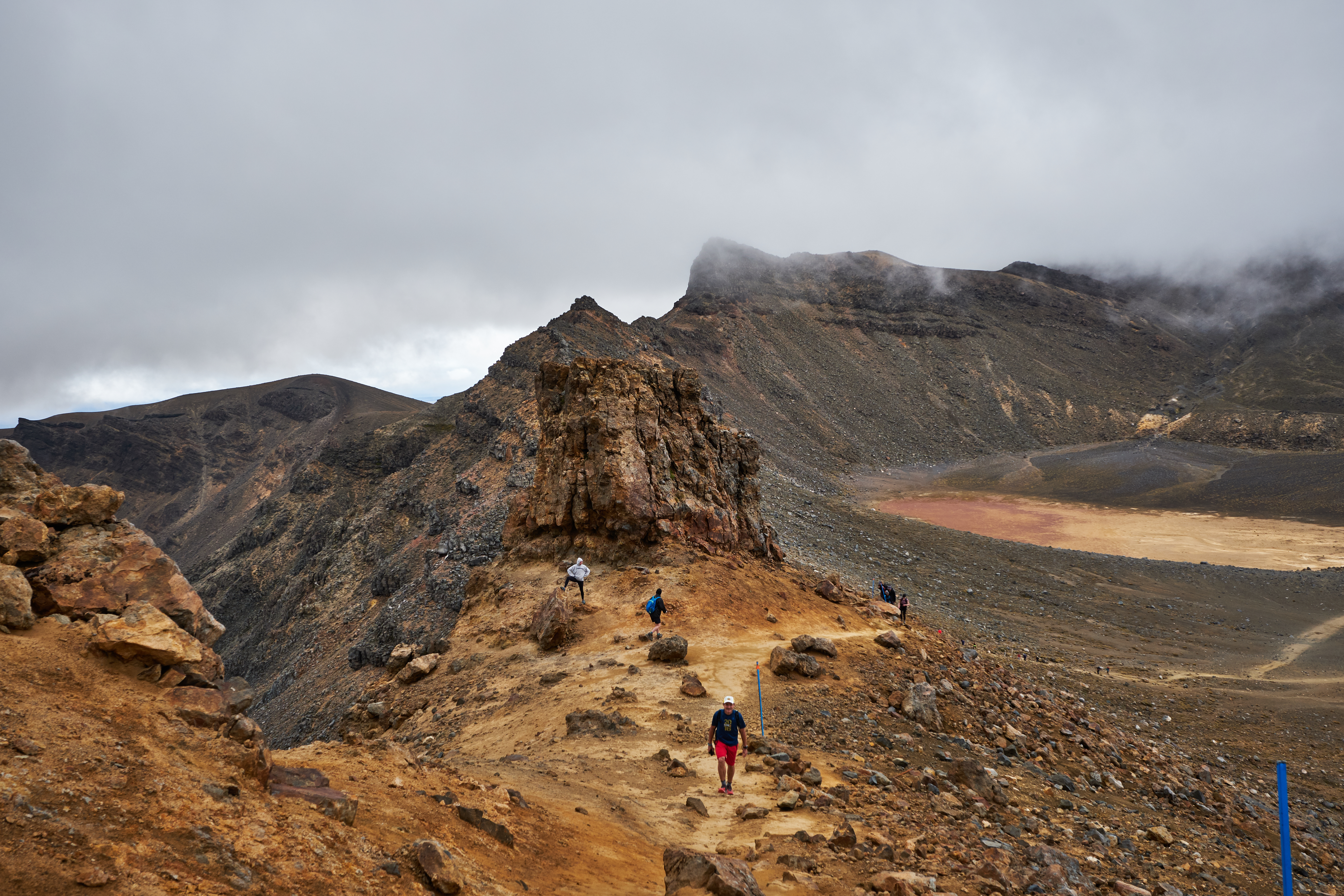 Within Tongariro National Park lie volcanic features, depicted here in 2019.